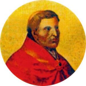 Portait of Pope John XI in the Basilica of Saint Paul Outside the Walls, Rome